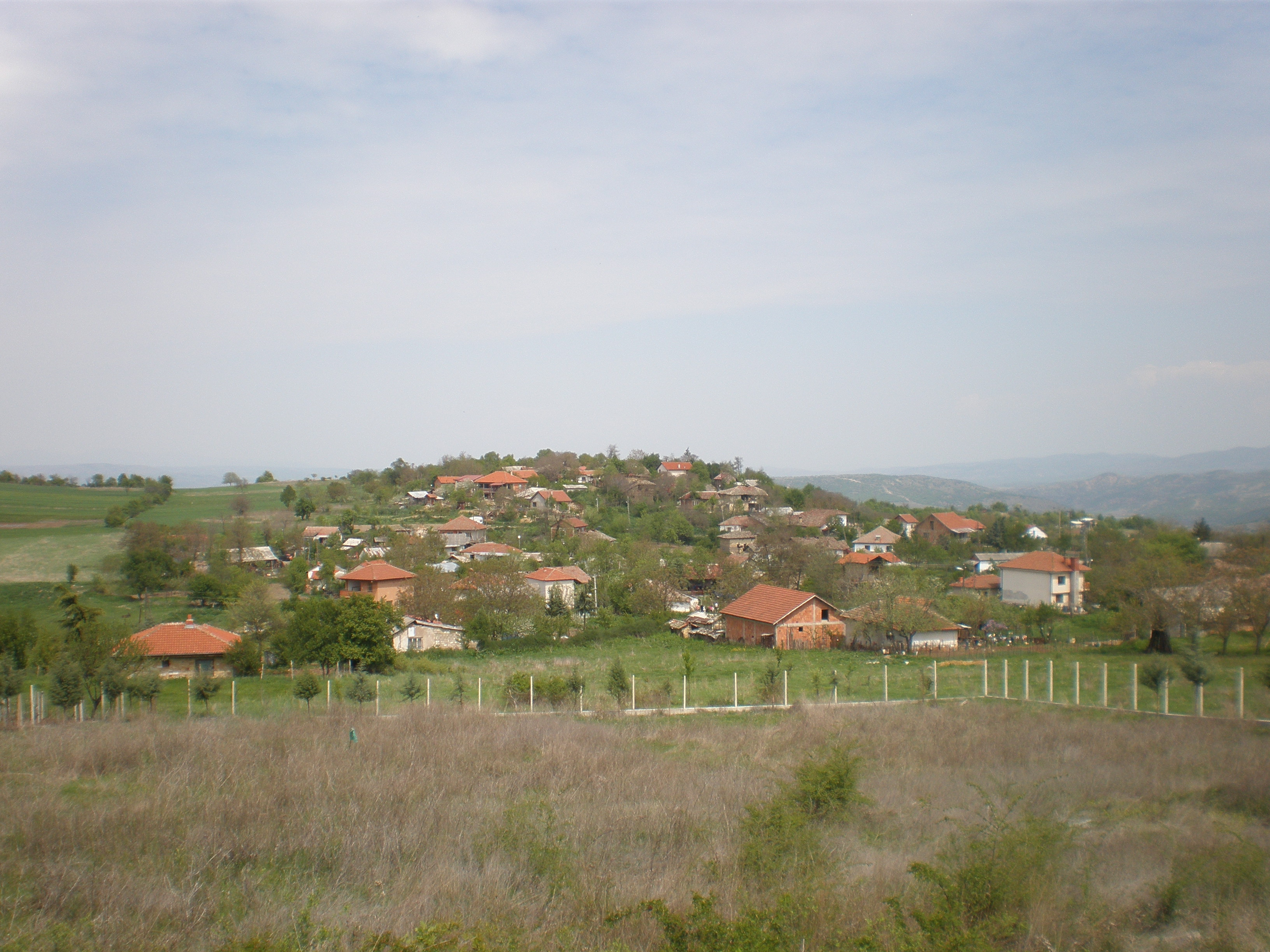 village of Blace, Petrovec municipality, Macedonia